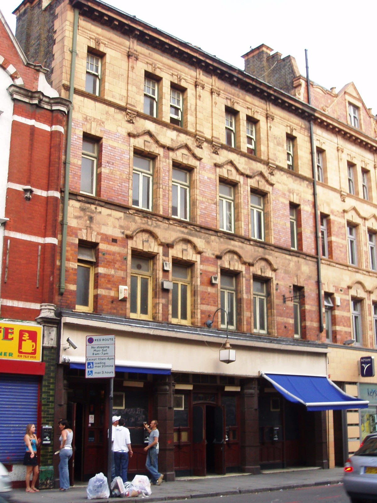 Flying Scotsman public house in Caledonian Road N1. Originally called The Scottish Stores.